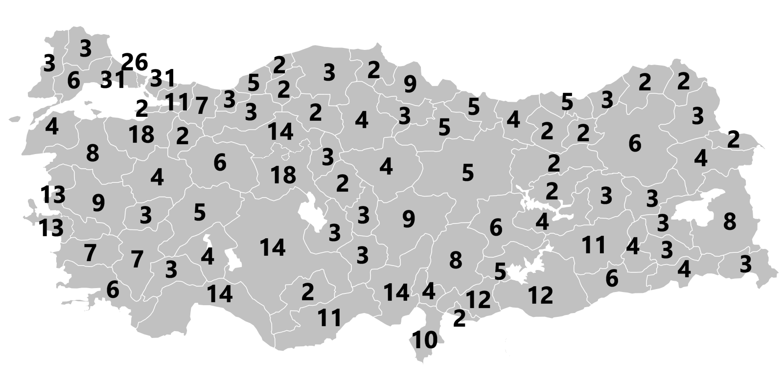 The number of MPs elected per electoral district in the 2015 Turkish general election